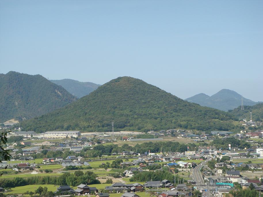 tokame mauntain. JAPAN